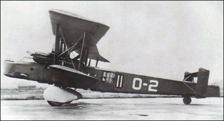 Vickers Type 163 heavy bomber prototype